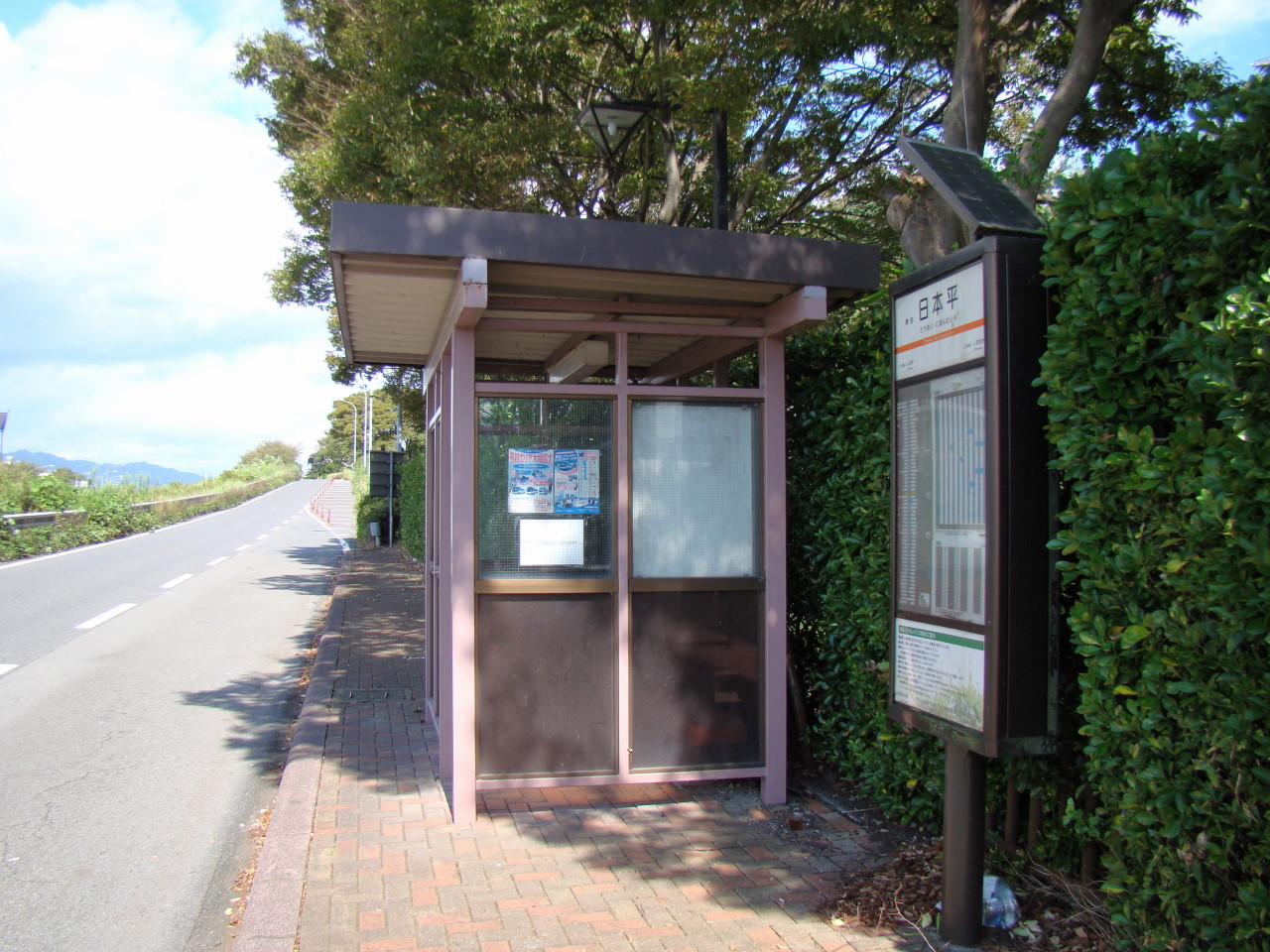 Tomei Expressway Nihondaira Bus Stop (bound for Nagoya) at the Nihondaira Parking Area